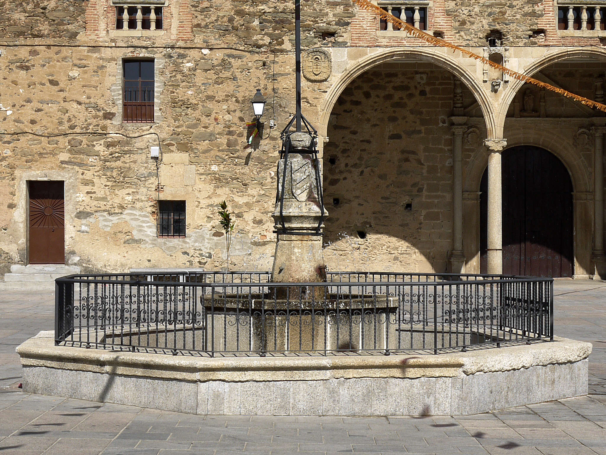 Fuente, Jaraicejo, Prov. de Cáceres, Spain.